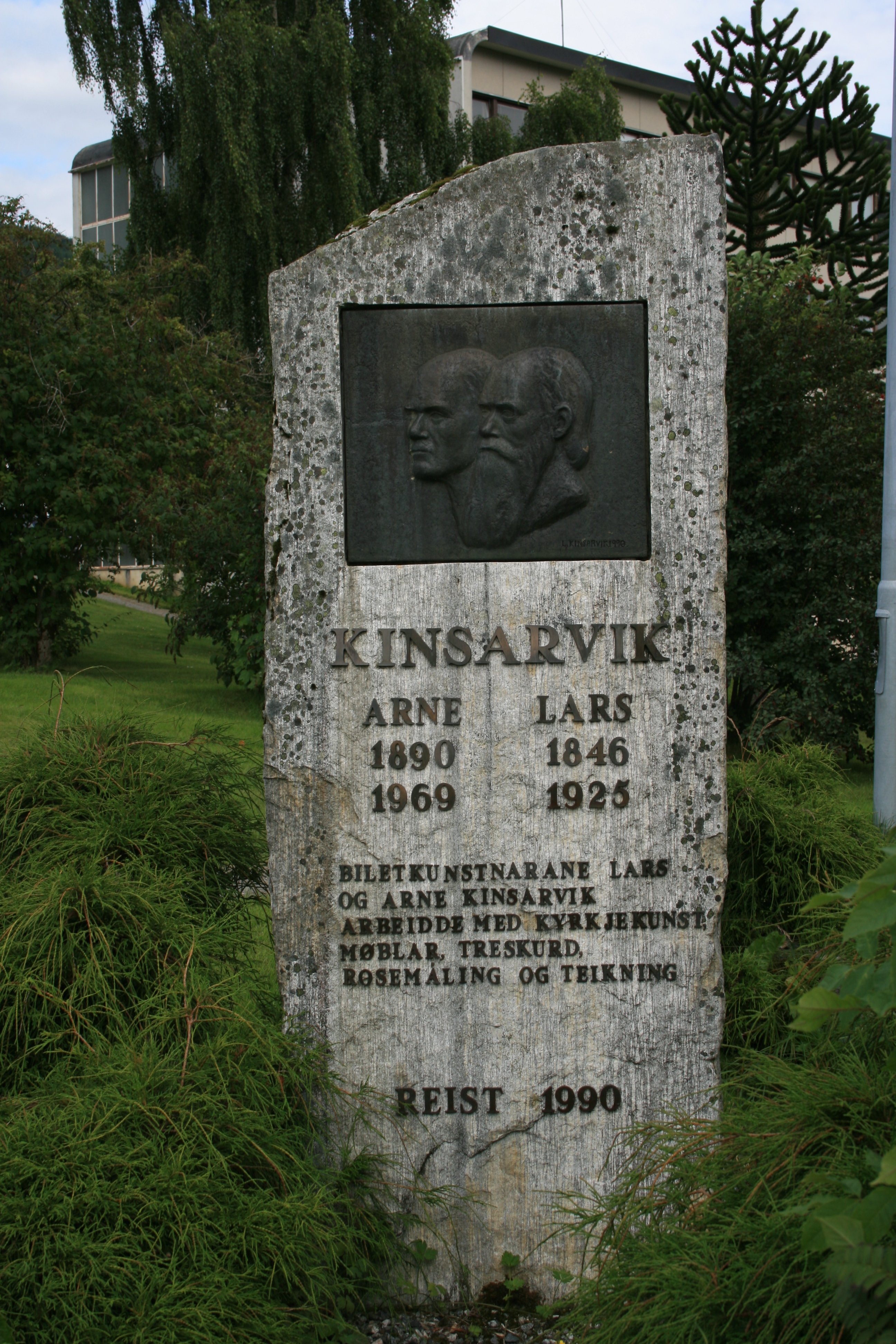 Lars and Arne Kinsarvik memorial in Volda, Norway